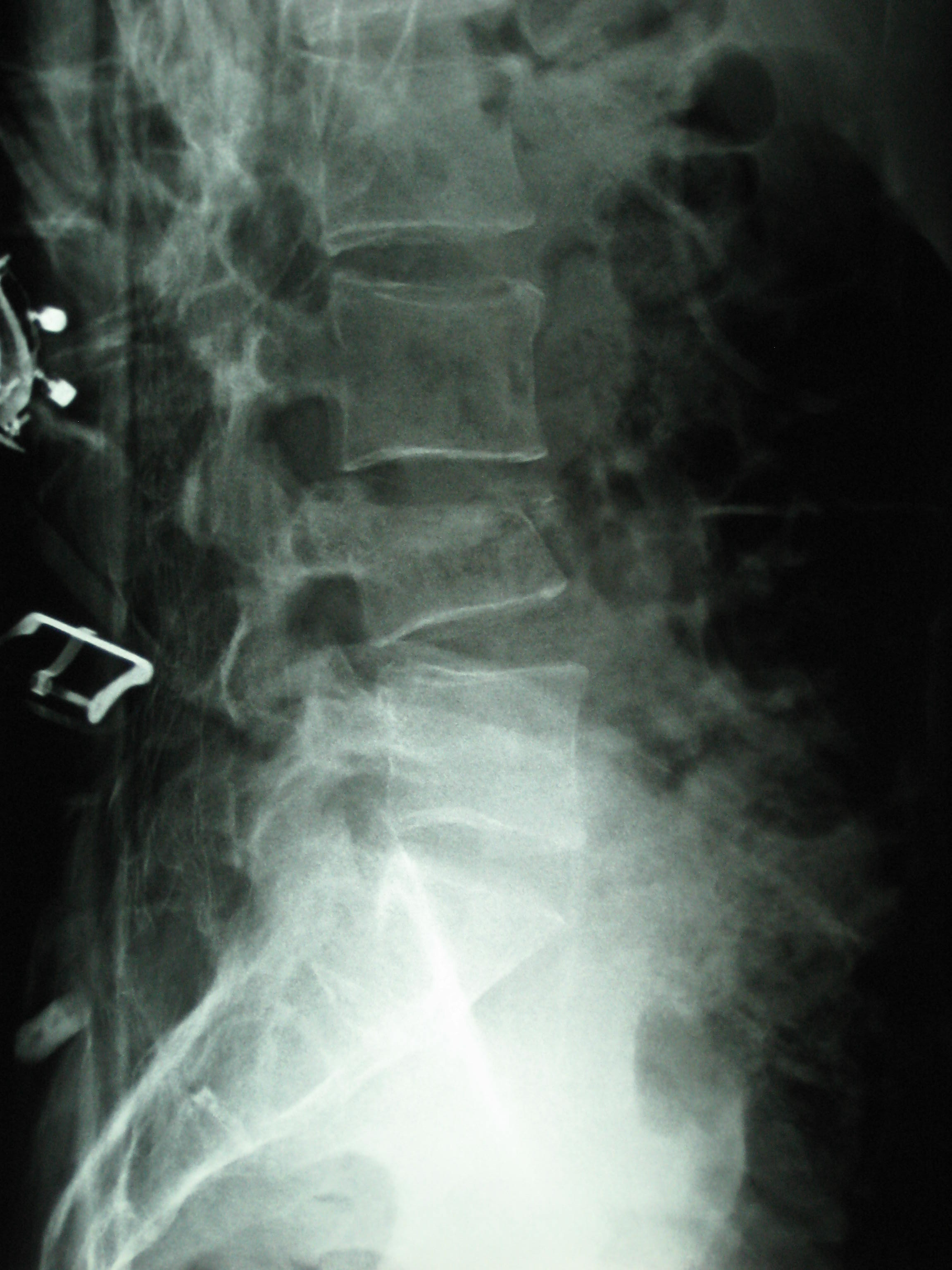 L4 vertebra compression fracture post fall from a height.